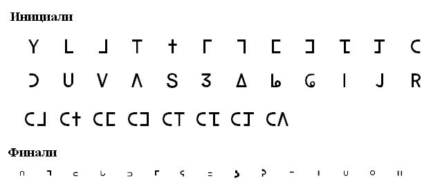 Pollard script for Hmong language